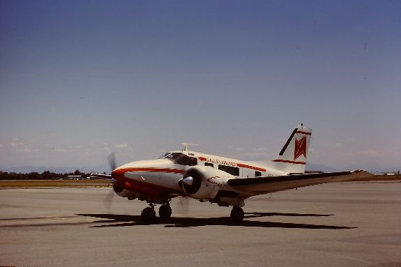 Manufacturer: Beech Designation: E-18 Airline: Valley Airlines